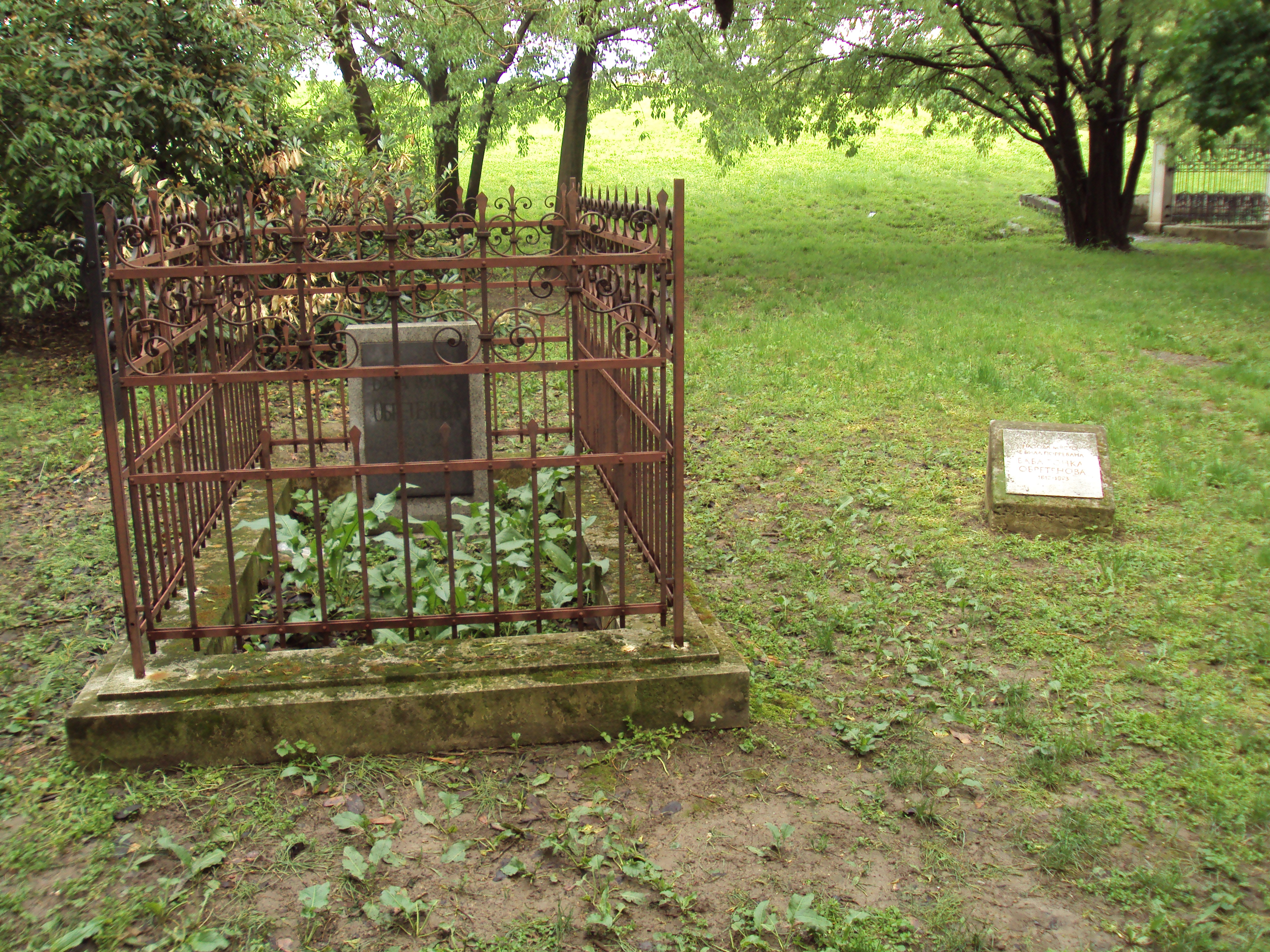 Ruse, Bulgaria